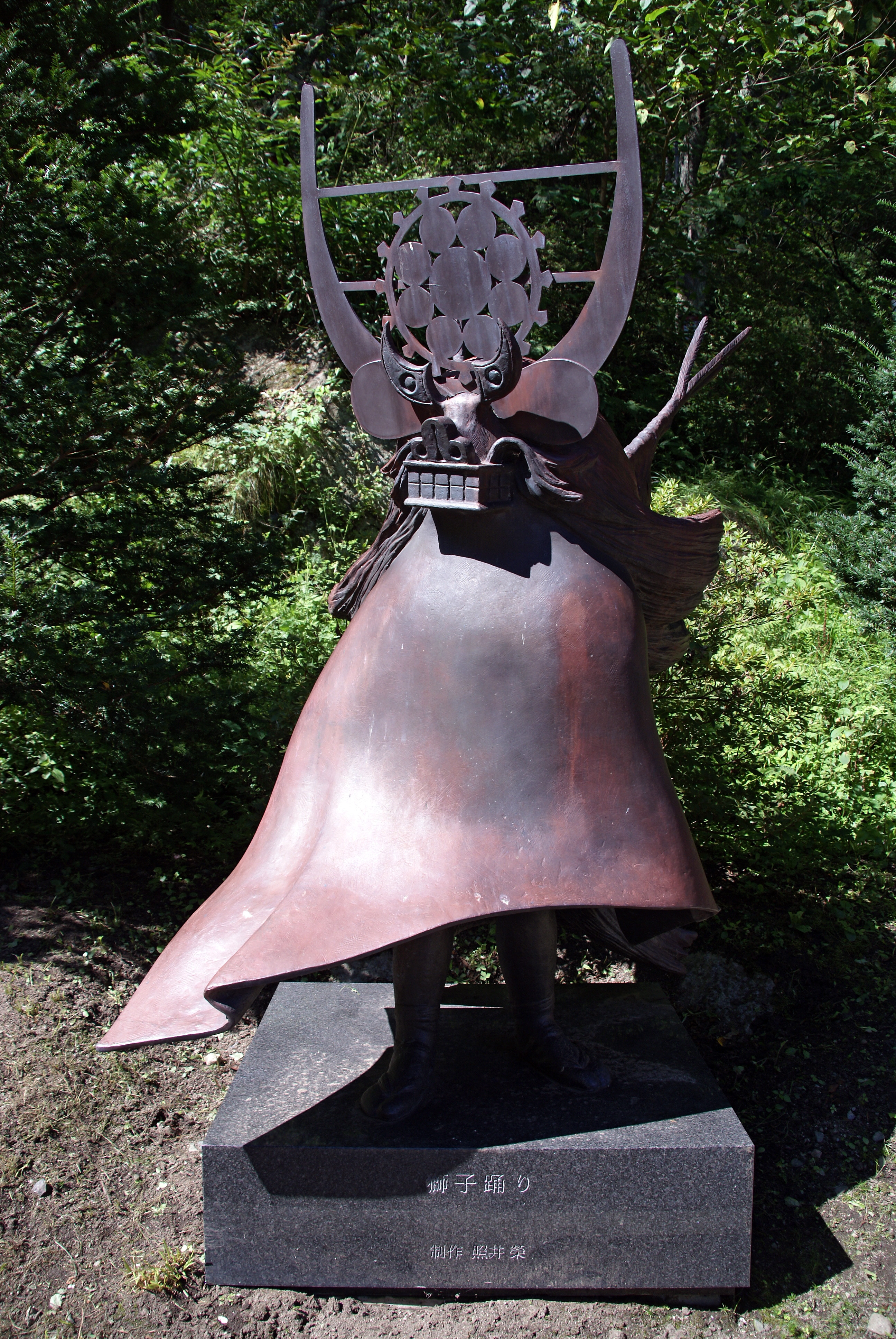 Tono Municipal Museum in Tono, Iwate prefecture, Japan